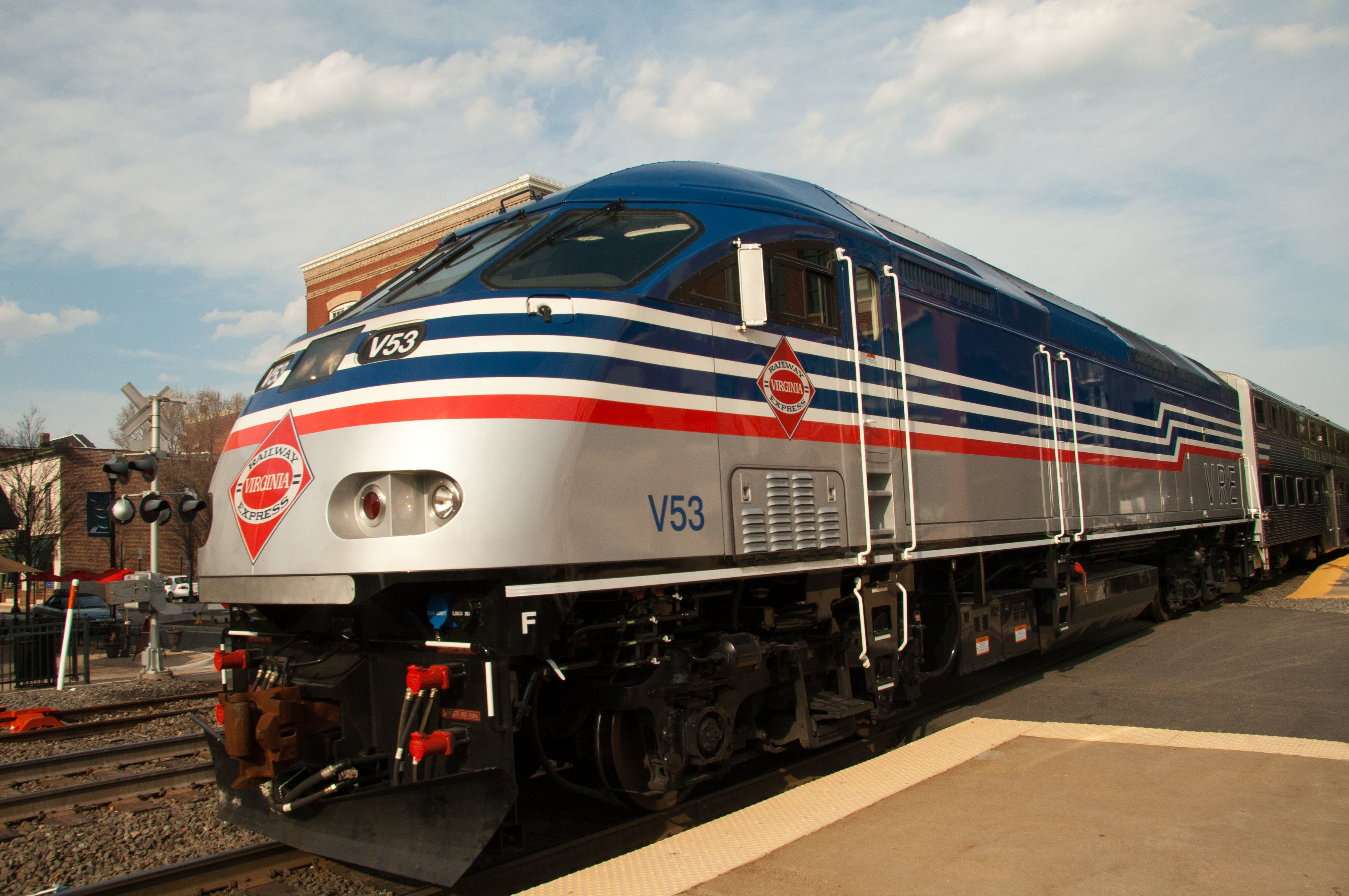 One of VRE's new MP36PH-3C engines slows to a stop in Manassas, VA. Train #327 left Washington, DC's Union Station a little over an hour earlier. The commuter line operates Monday through Friday.